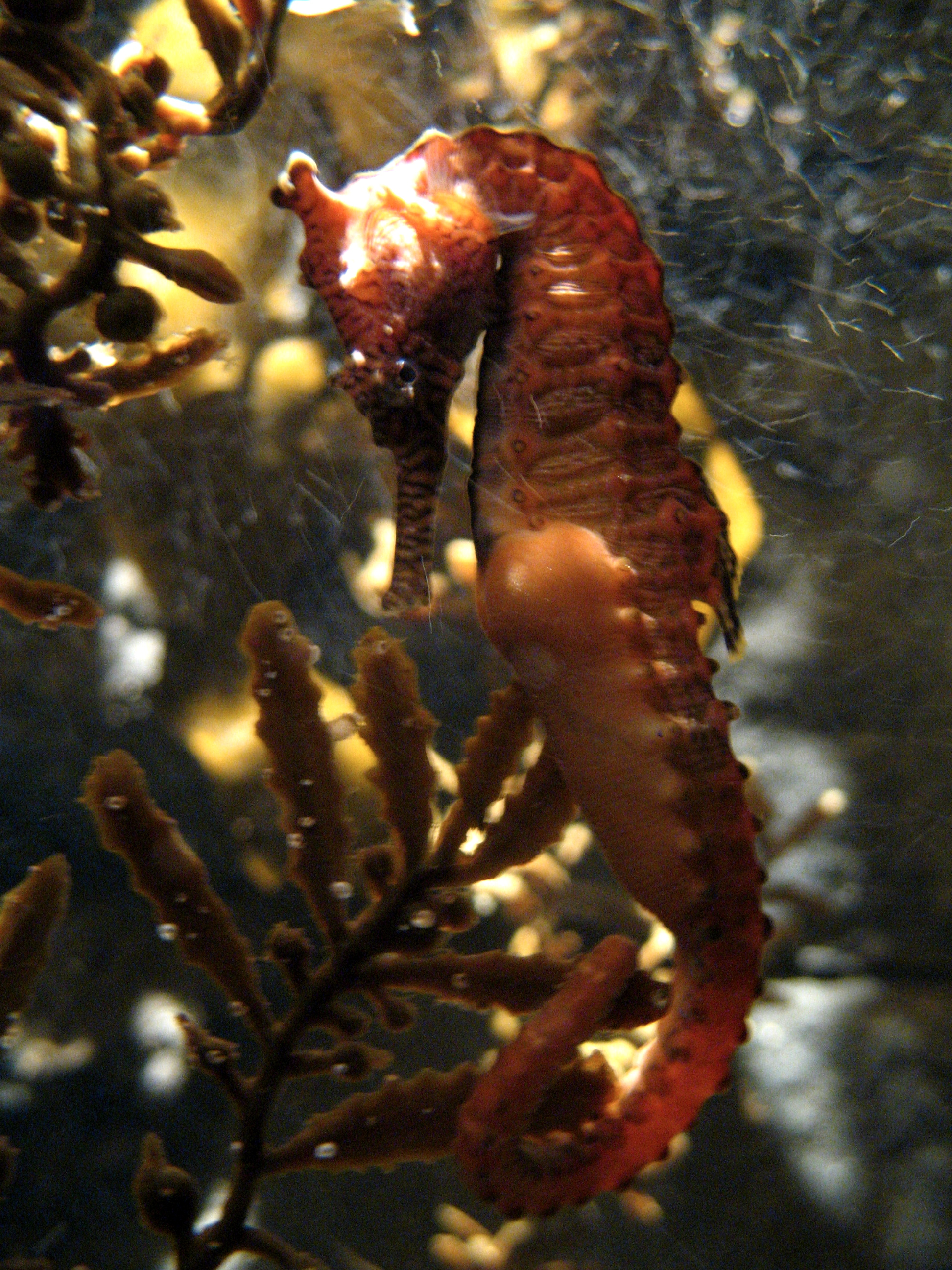 West Australian seahorse (Hippocampus subelongatus) at the Sydney Aquarium.